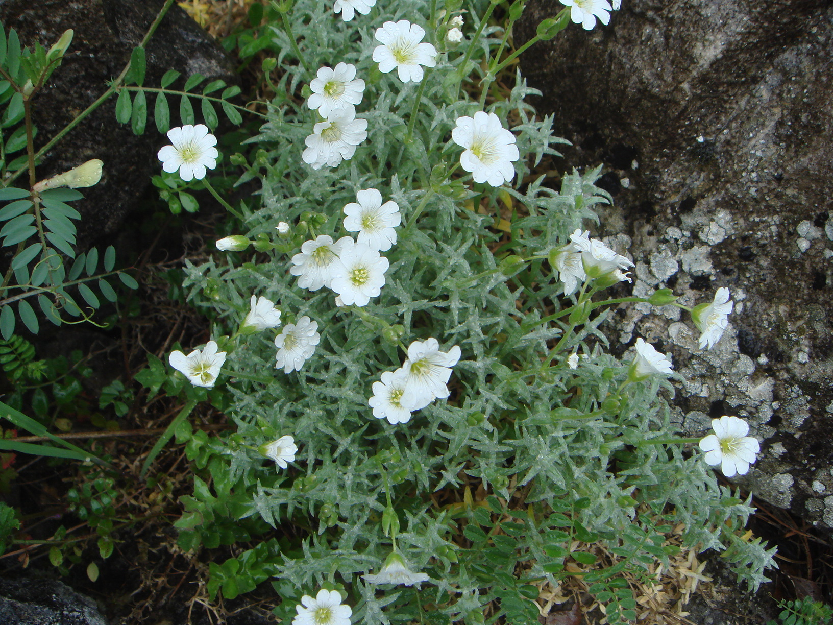 Cerastium gibraltaricum, Grazalema, Cádiz (Spain)